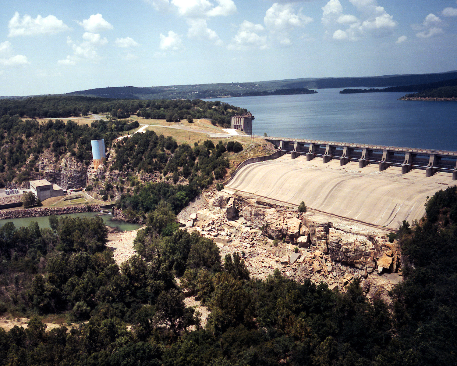 Aerial view of Tenkiller Ferry Lake (also known as Tenkiller Lake) and Dam on the Illinois River in Sequoyah County, Oklahoma, USA. The lake backs up into Cherokee County. The earth-fill dam was constructed between 1947 and 1952 by the United States Army Corps of Engineers for purposes of flood control and hydroelectric power generation. This photograph shows only the concrete spillway and powerhouse, and, does not show the largest, earth-fill part of the dam, which would be off to the right of the picture. View is to the north. Coordinates: 35°35′42.36″N 95°2′51.5″W / 35.5951°N 95.047639°W